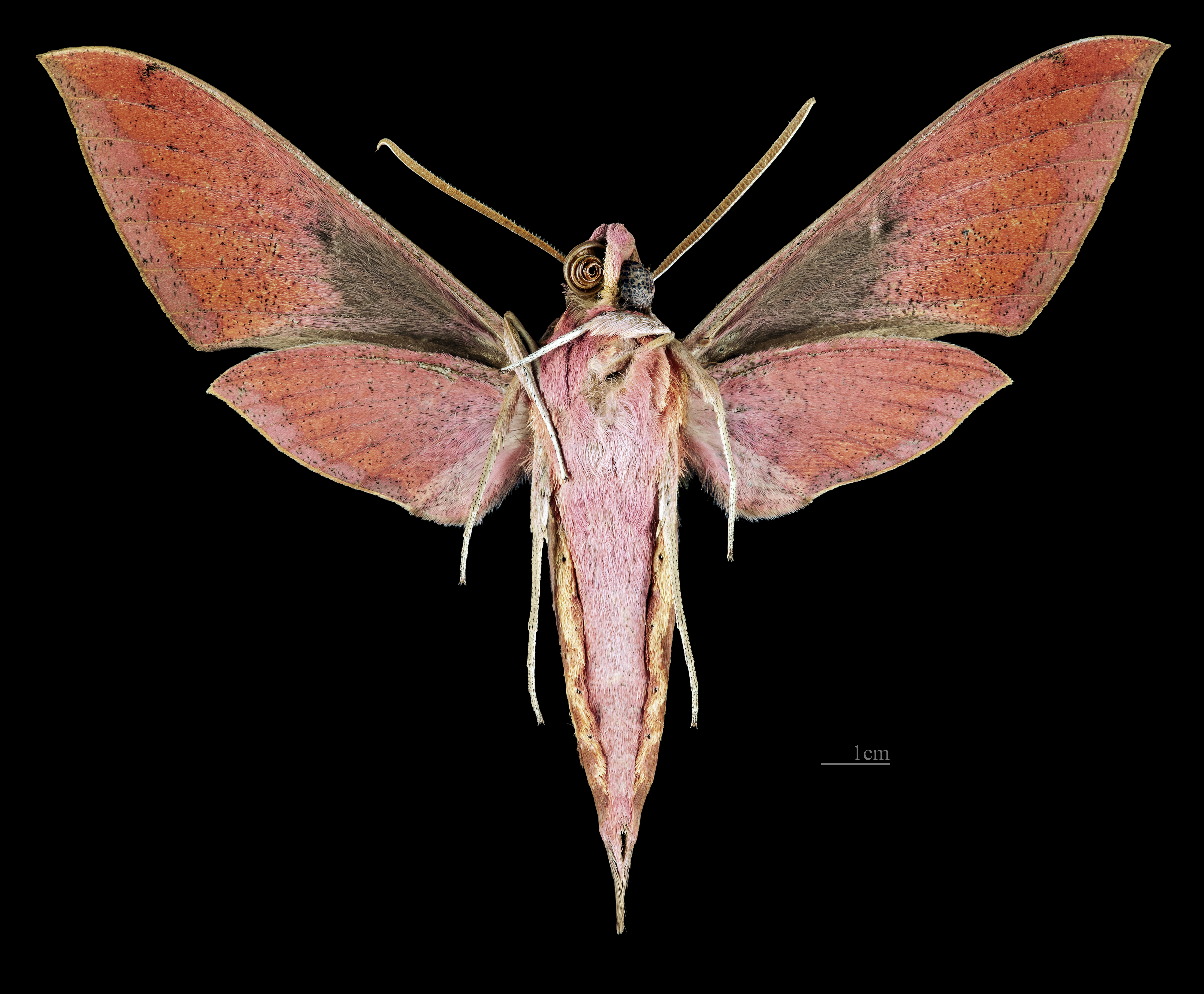 Xylophanes schwartzi - △ Ventral side Paratype